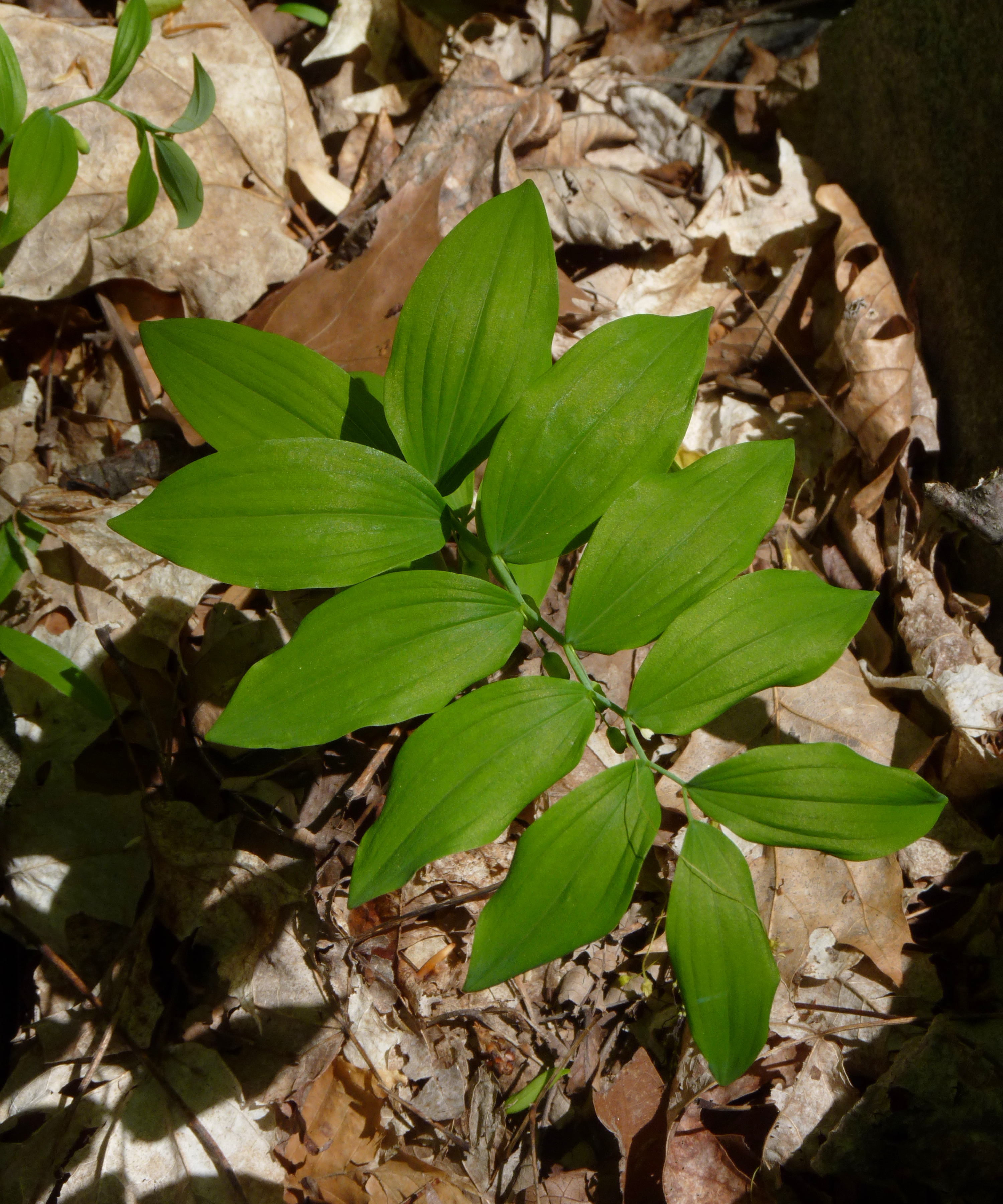 Polygonatum biflorum — Smooth Solomon's-seal, great Solomon's-seal. On Sourland Mountain, within the Sourland Mountain Preserve, in the Appalachians of western New Jersey.